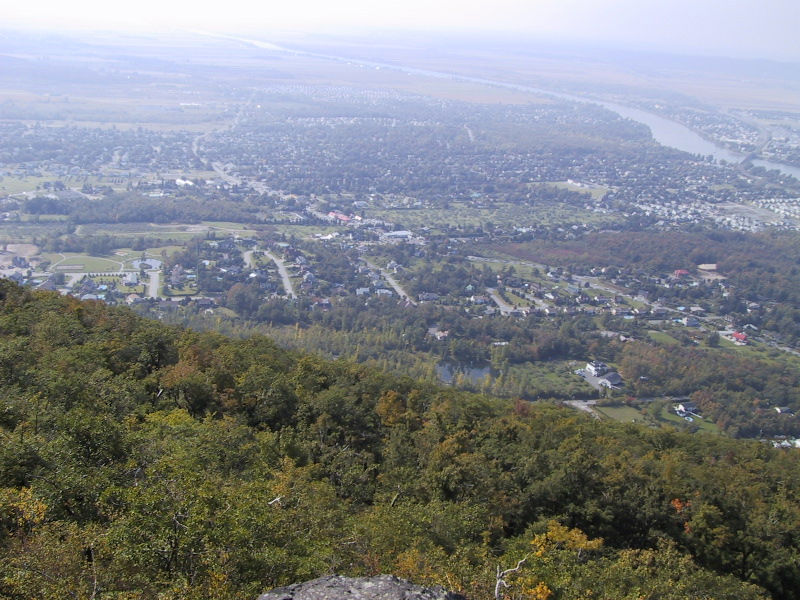 Photo of mount Saint-Hilaire's view. Taken by User:Krestavilis in October 2000